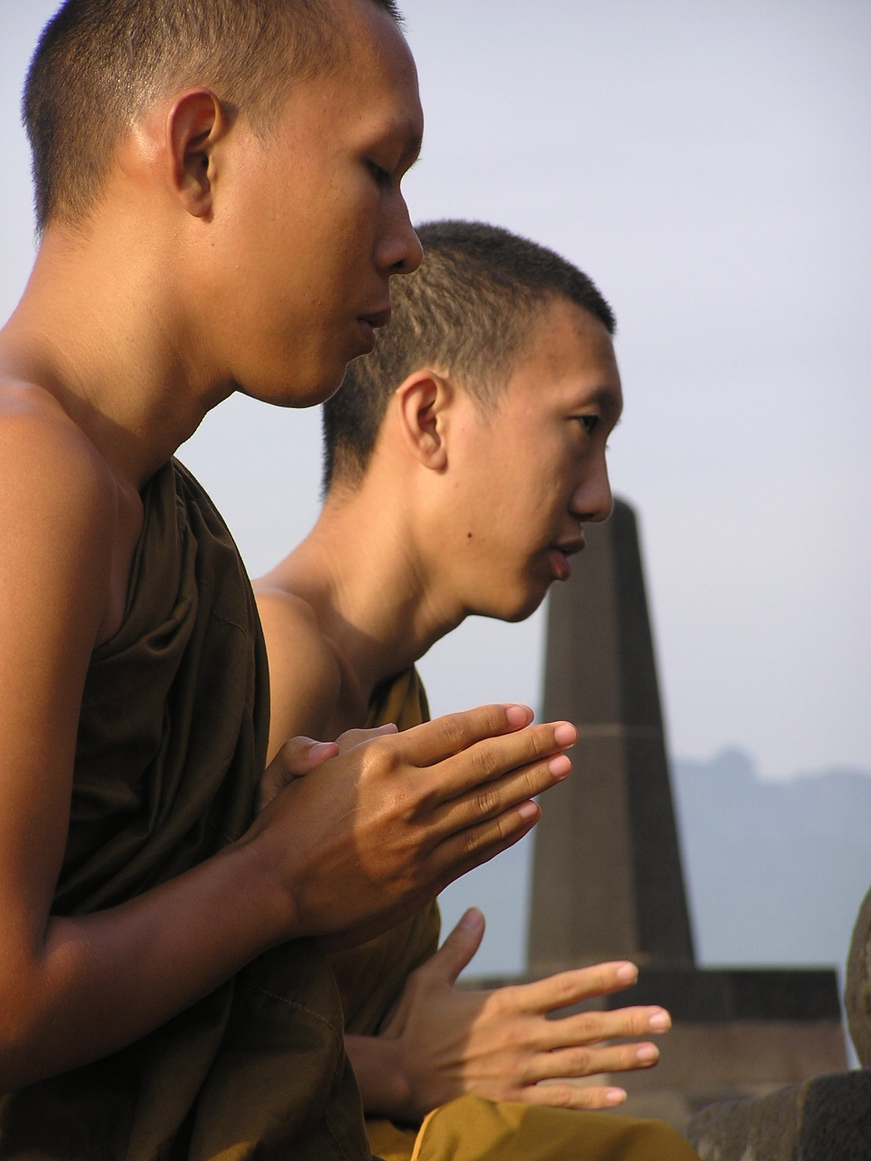 Buddist monks praying at Borobudur, central Java, Indonesia.